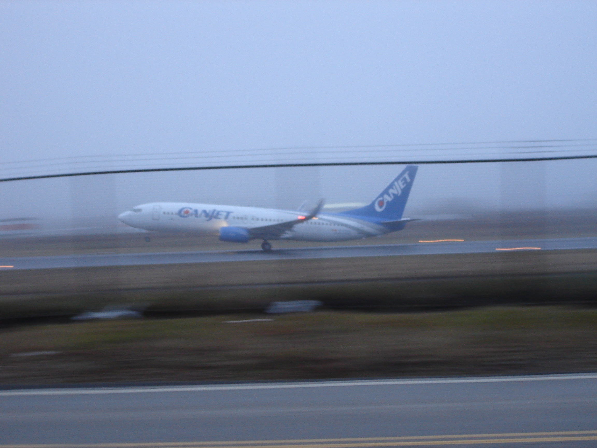 A CanJet Airlines Boeing 737-800 takes off from Halifax Stanfield International Airport, Canada.